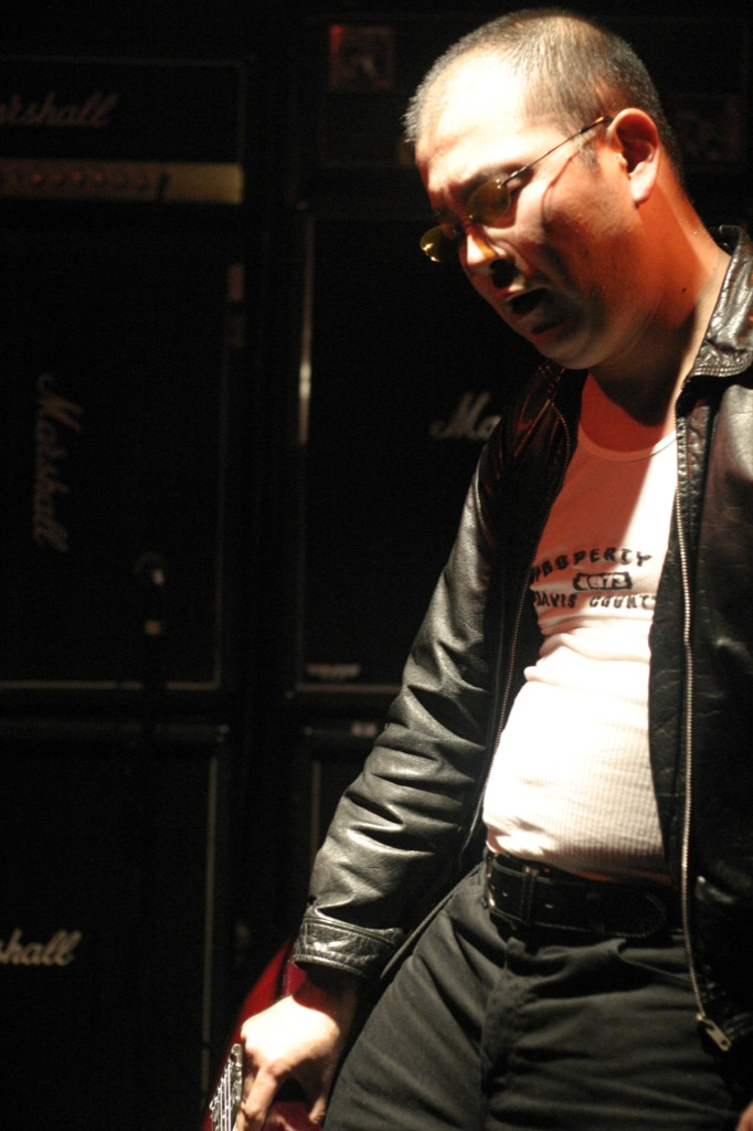 jojo hiroshige (hijokaidan) solo at bears 2007 dec he use bat(w/mic) and guitar broke